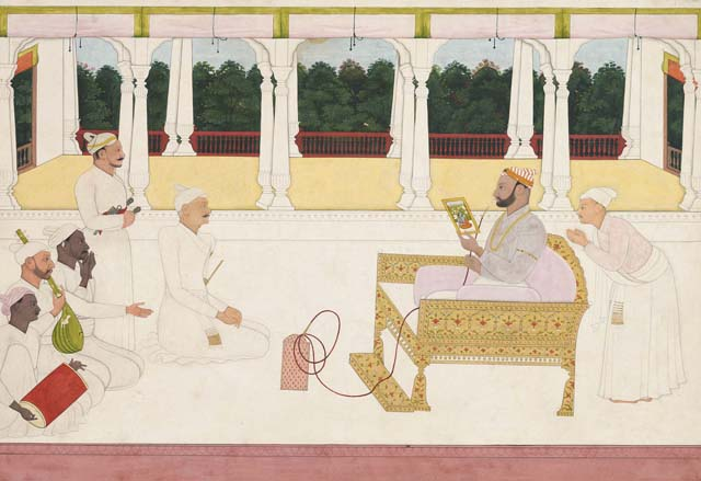 Attrib-to-Nainsukh-Raja-Balwant-Singh-of-Jasrota-Viewing-Painting-Presented-by-Artist